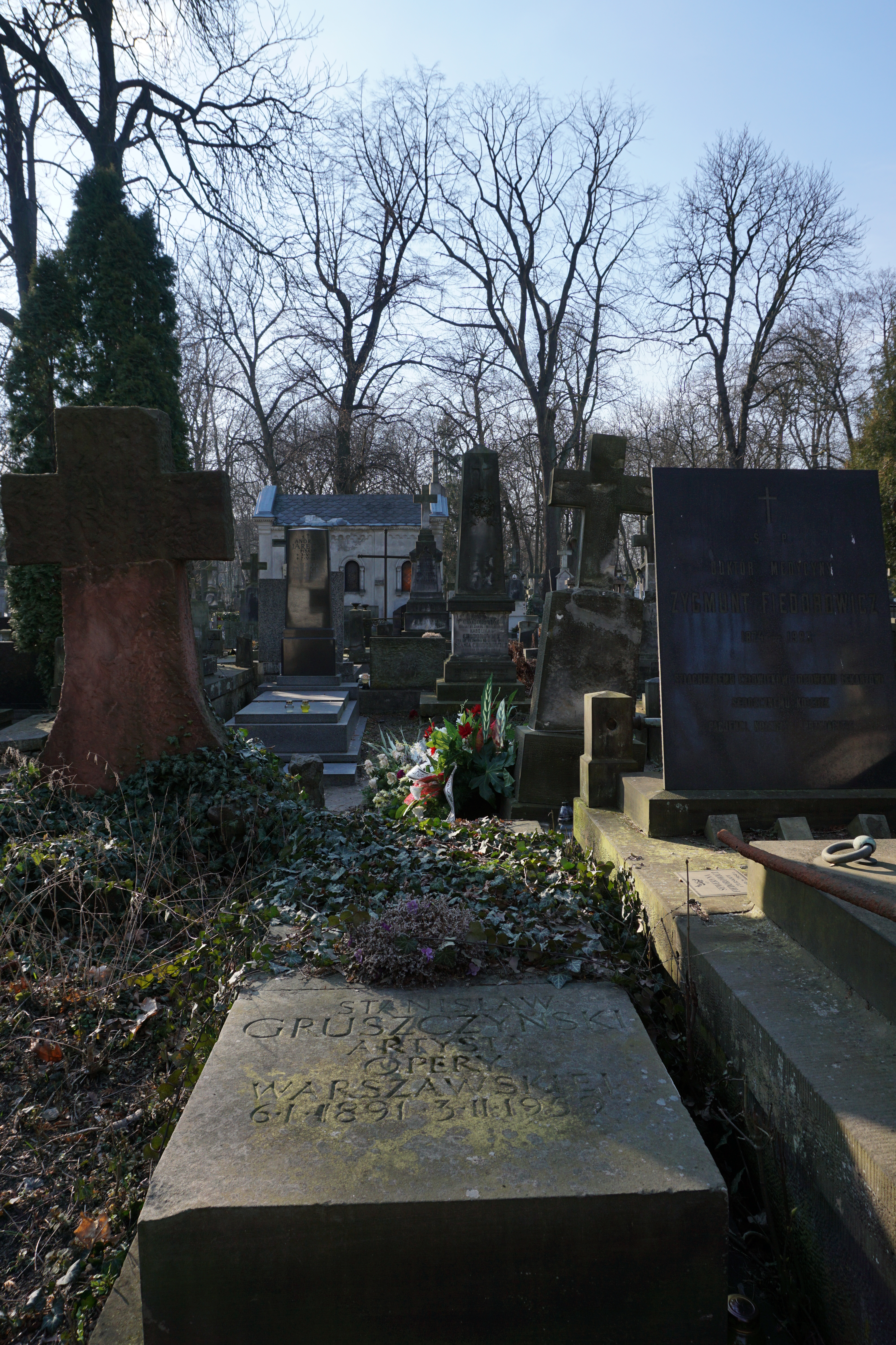 The grave of Stanisław Gruszczyński at the Powązki Cemetery (section 174, row 1, grave 6)